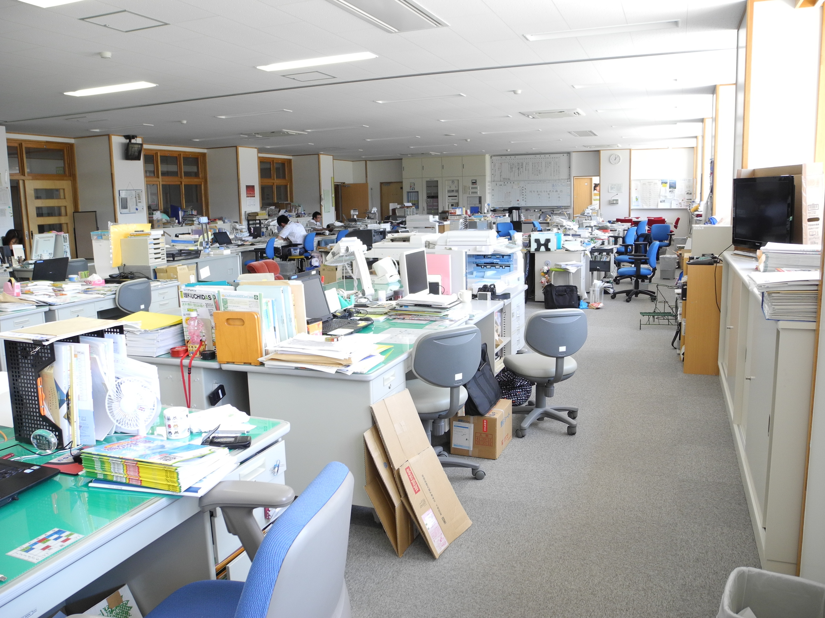 Staff room. Yashima Junior High School / Yashima High School. Yashima, Yurihonjo, Akita, Japan.